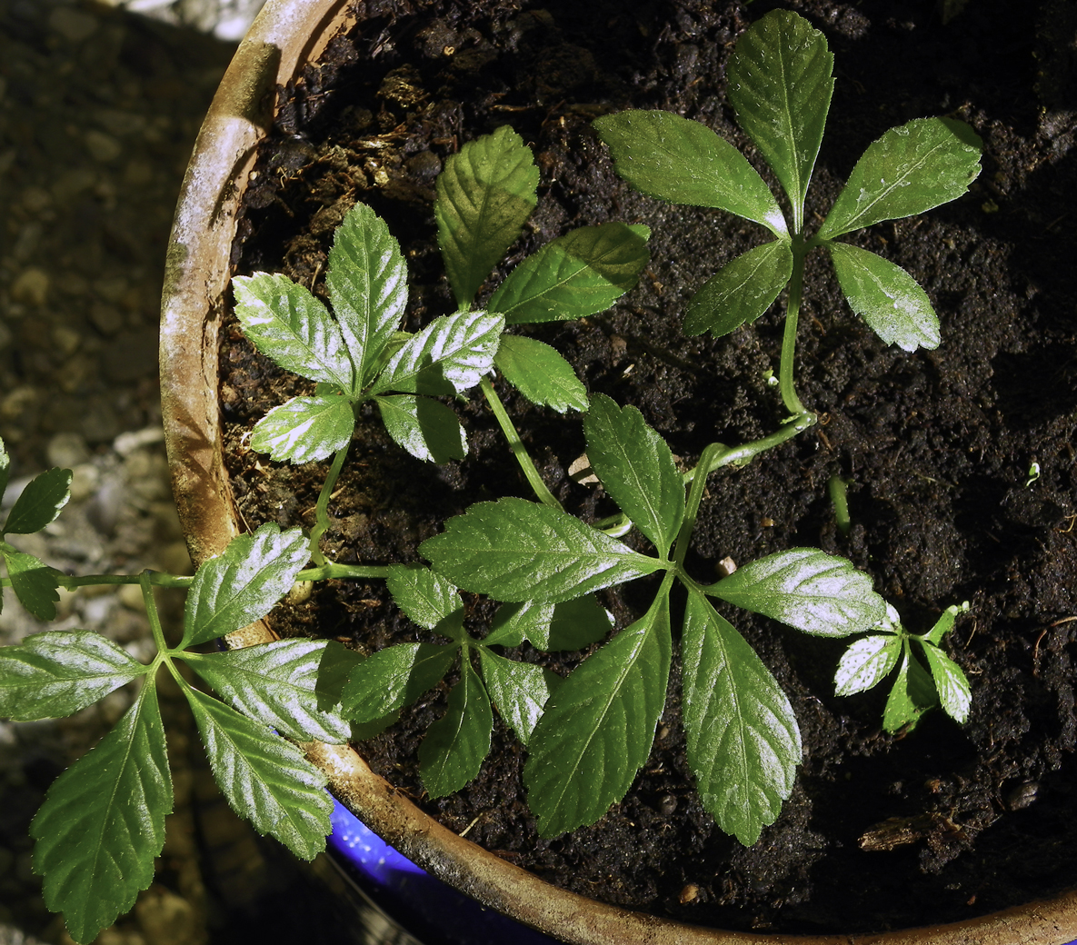 Gynostemma pentaphyllum growing in potting soil.